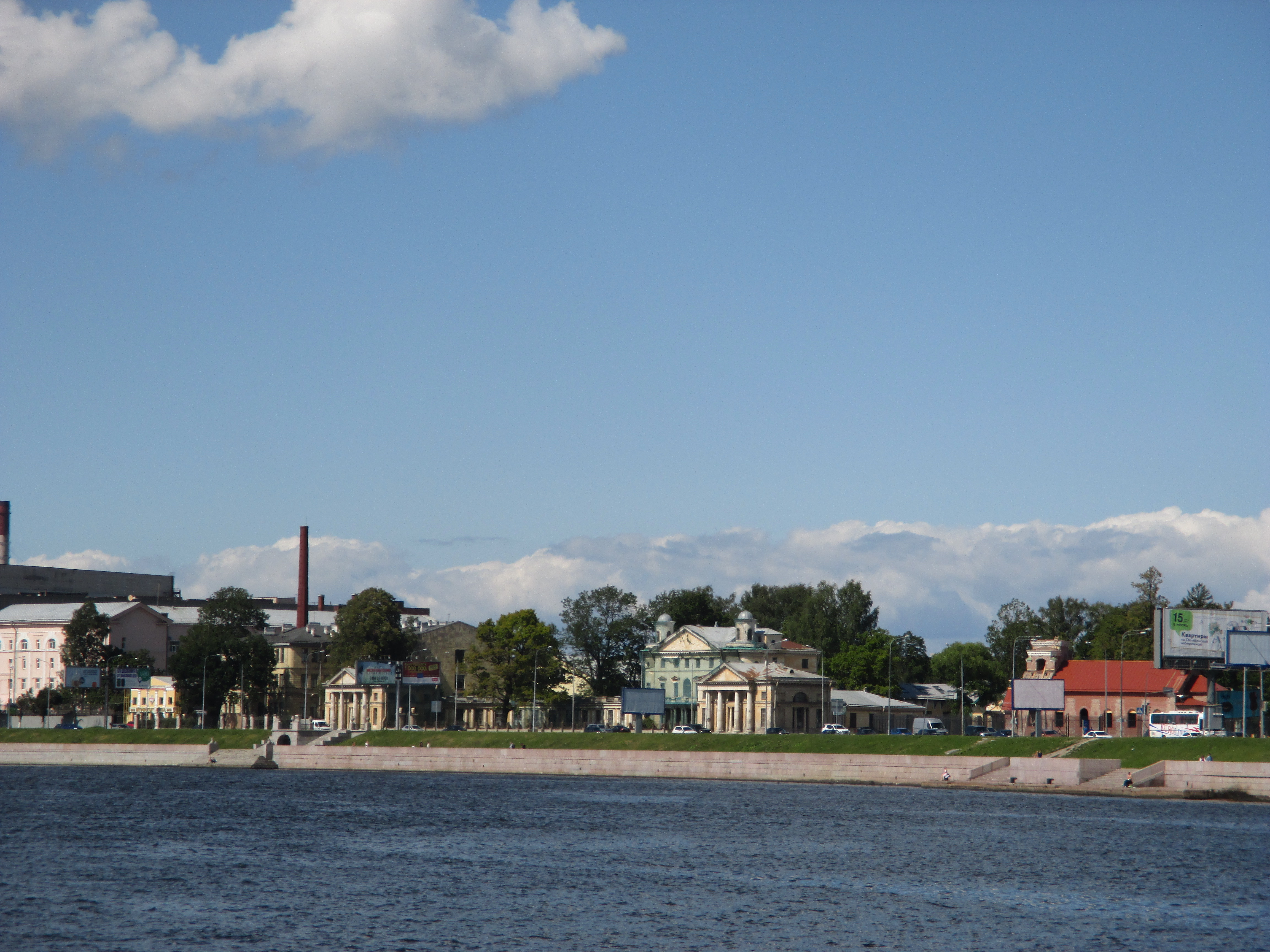 Bezborodko Dacha in Saint Petersburg - full complex